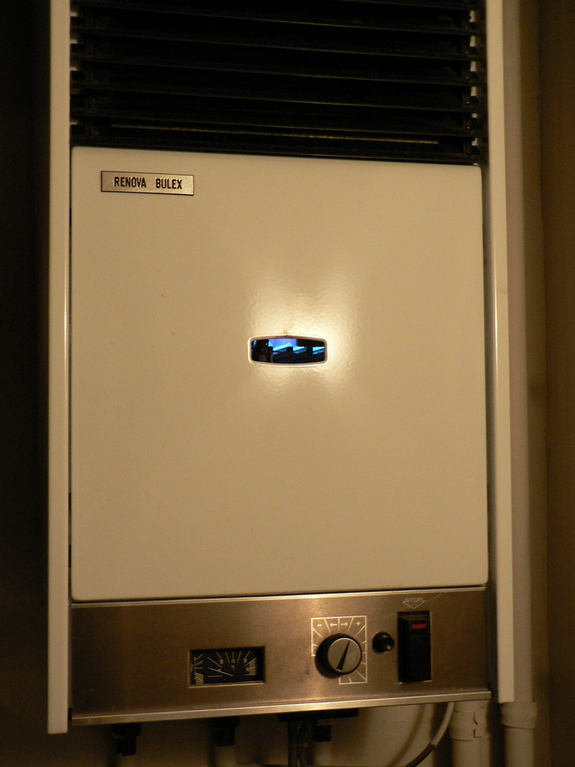 gas boiler